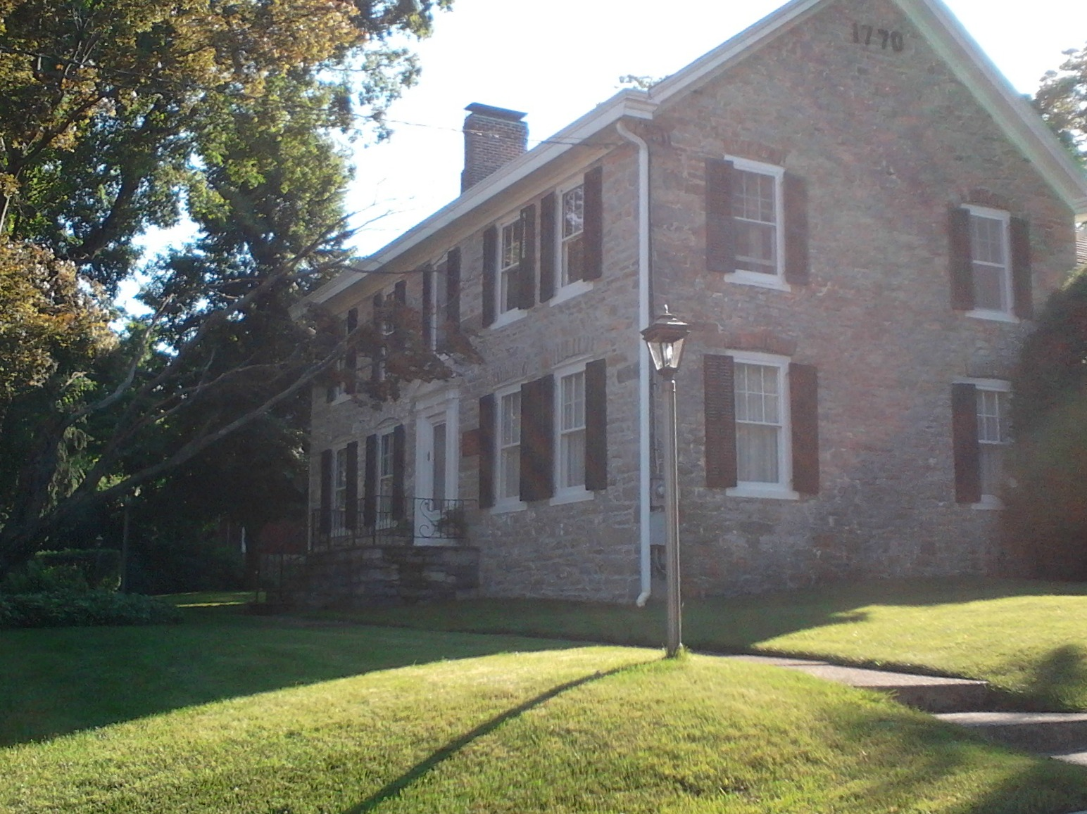 The Old Parsonage (built c.1770) associated with Christ Church in Newton, Sussex County, New Jersey. This property belonged to the parish from 1770 until its sale in 1868. Today it is a private residence. Photograph taken by uploader 29 June 2013 at 17:40 Since 1992, on the State and National Register of Historic Places as part of the Newton Town Plot Historic District.